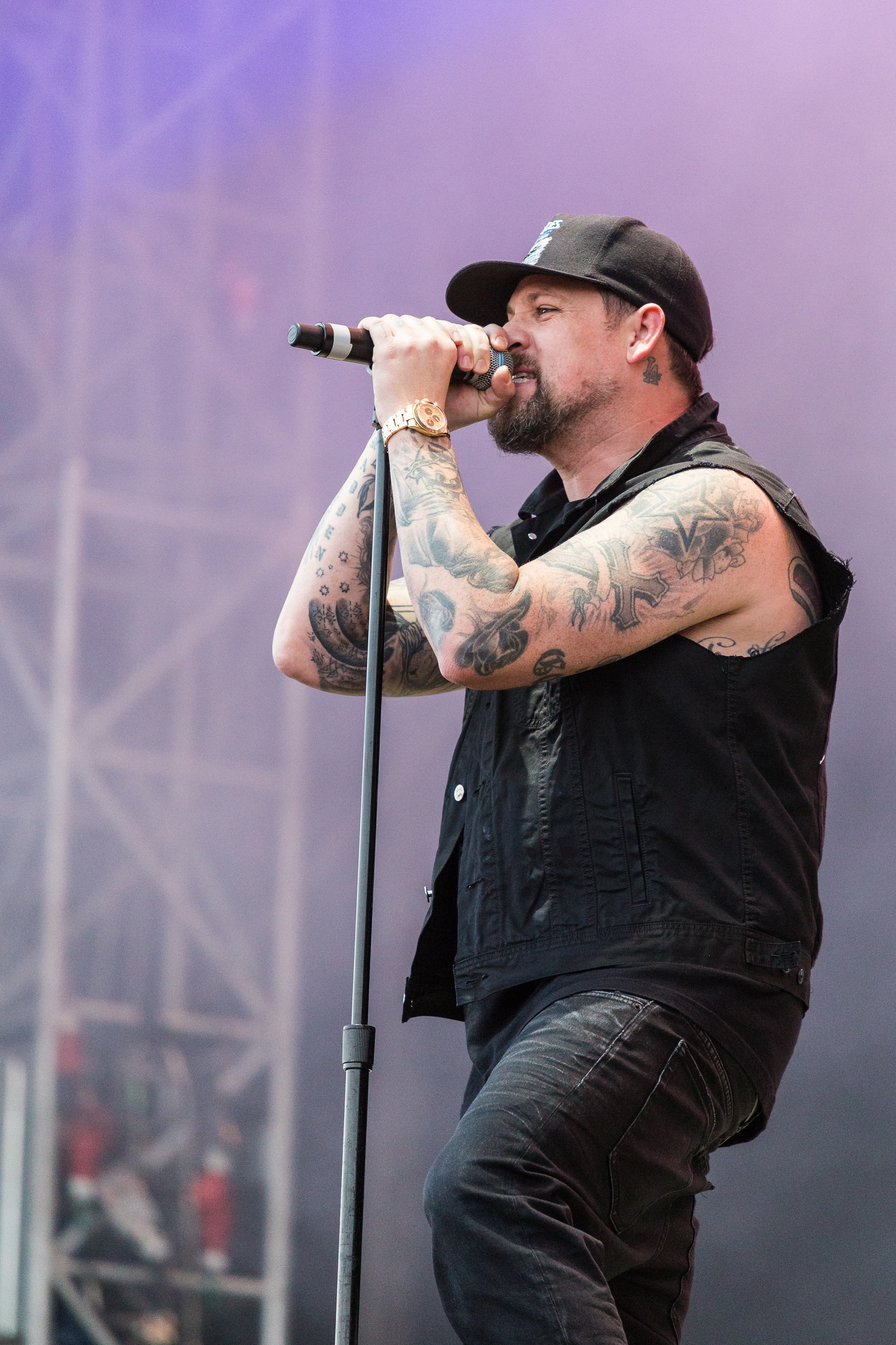 Nova Rock 2017 Joel Madden from Good Charlotte at the Nova Rock 2017